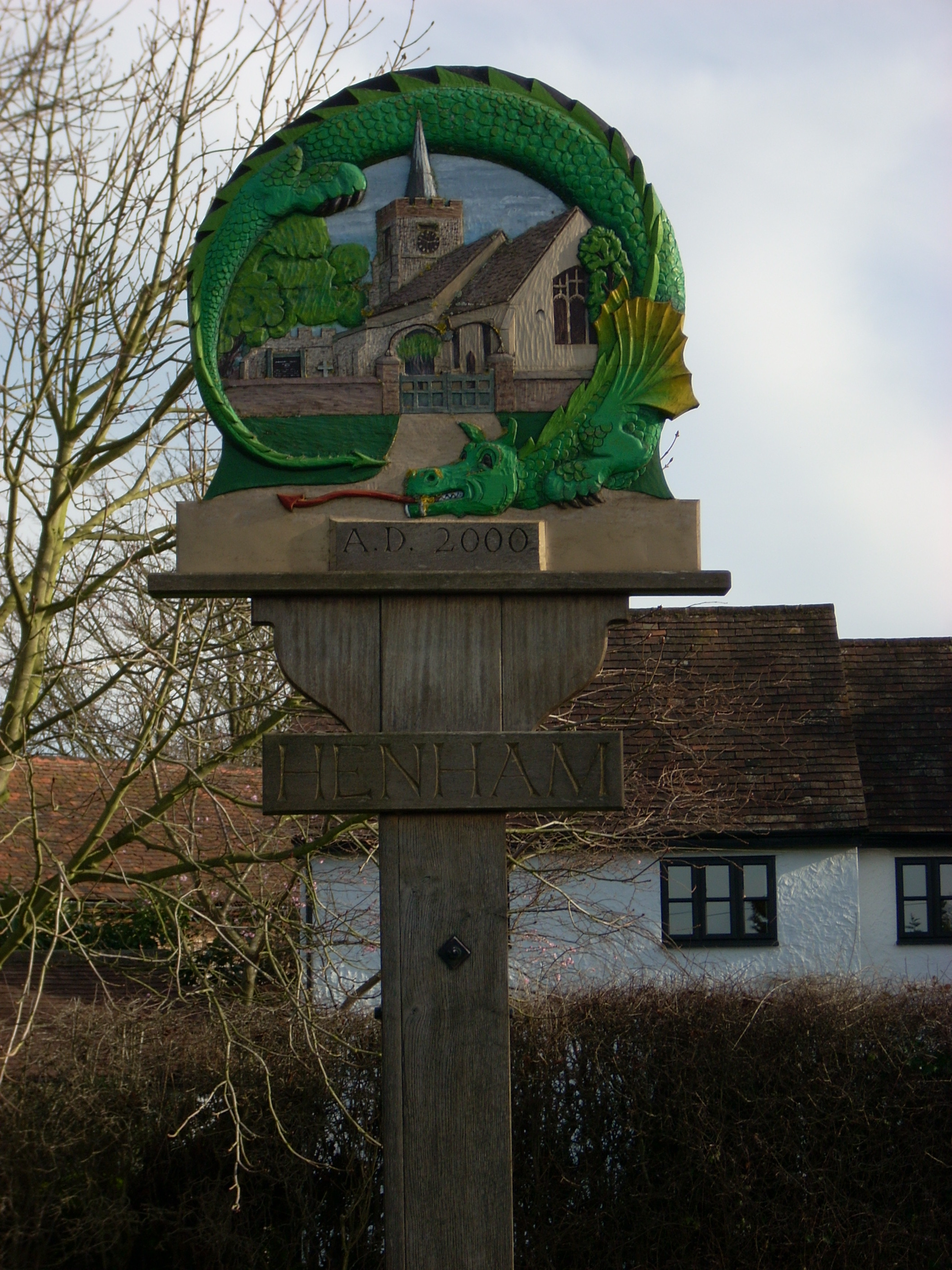 Village sign of Henham, Essex, England